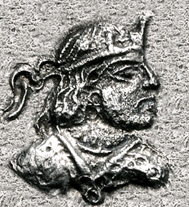 Portrait of Paratarajas ruler Kozana circa 200-220 CE